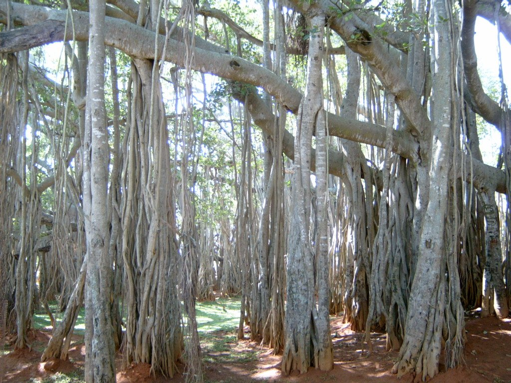 Underneath the aptly named "big banyan tree". This single tree covers around 3 acres.Big Banyan